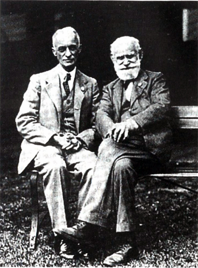 Cushing and Pavlov